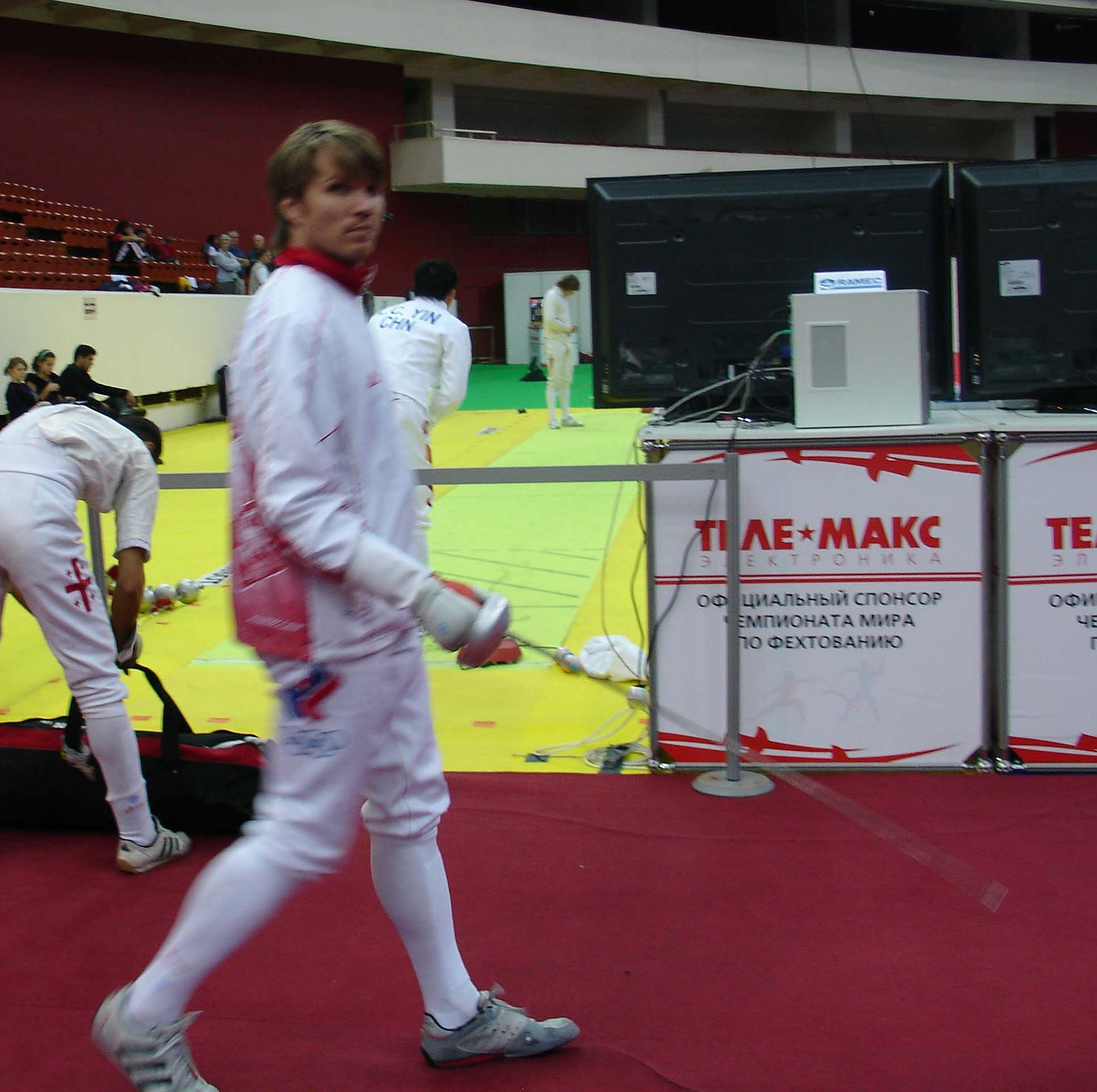 Russian epeé fencer Pavel Kolobkov, World Championships. St. Petersburg 2007